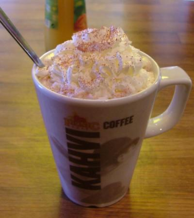 A mug of hot chocolate with whipped cream and (probably) either cinnamon and/or cardamom on top.